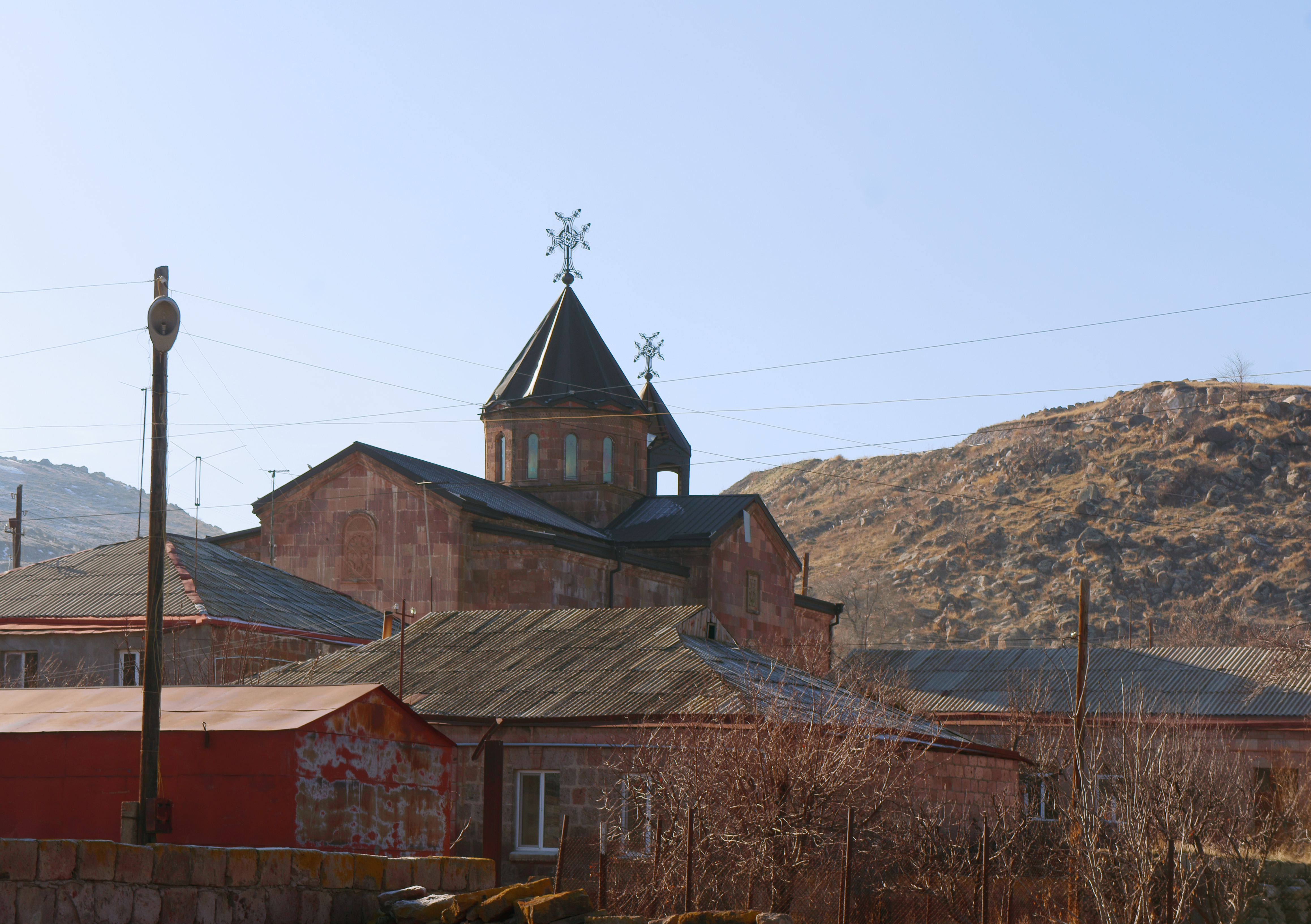 Surb Astvatsatsin church of Maralik ("Holy Mother of God Church";) 3/9